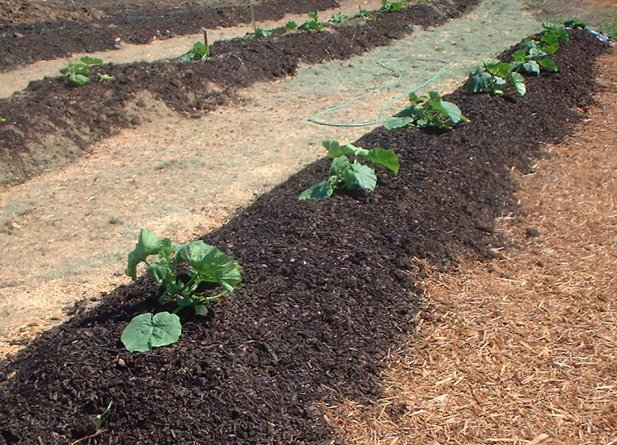 Pumpkin seedlings planted out on windrows of composted biosolids at community compost education garden